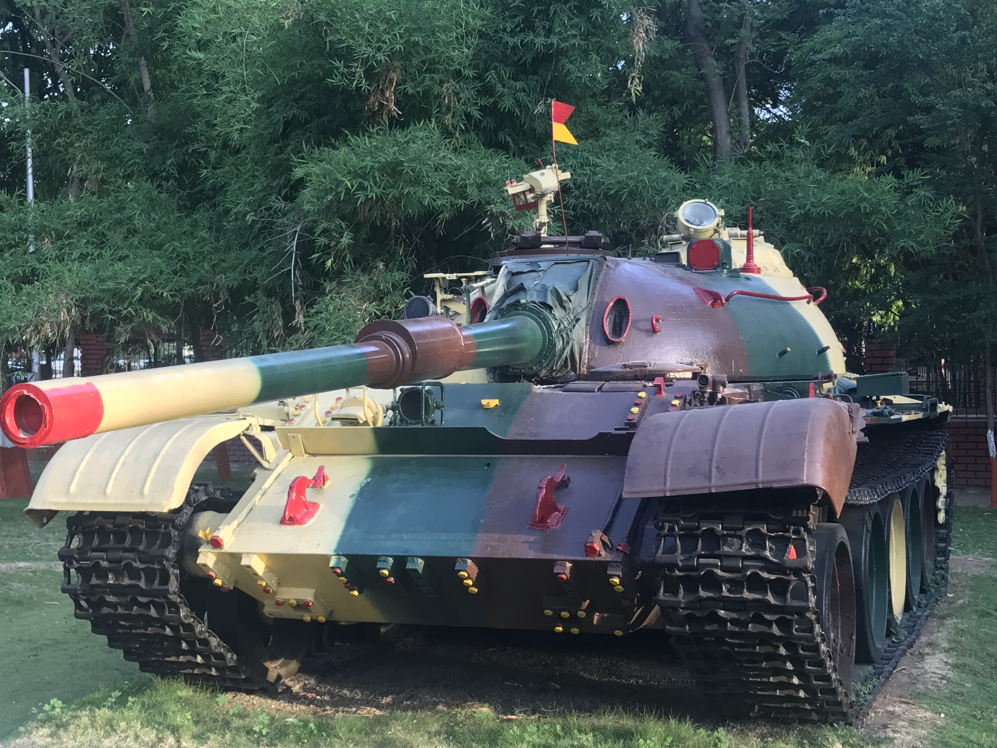 The T-55 tank is of Soviet origin and of 1950 vintage. This 'monster' was used extensively in Indo-Pak war of 1971 in several battles such as battle of Chachro and proved to he a Battle winning factor. The T-55 surprised the enemy with its maneuverability, high velocity, low silhouette along with its exceptional capability of cruising long range with high speeds of upto 48 km per hour. The tank has a crew of four, weighs 36000 kg and had been the backbone of the Mechanised Formations for several years. It is equipped with 100 mm D-1 T Riffled main gun, 7.62 mm PKT Coaxial Machine Gun as secondary armament and 12.7 mm Anti Aircraft Machine Gun.